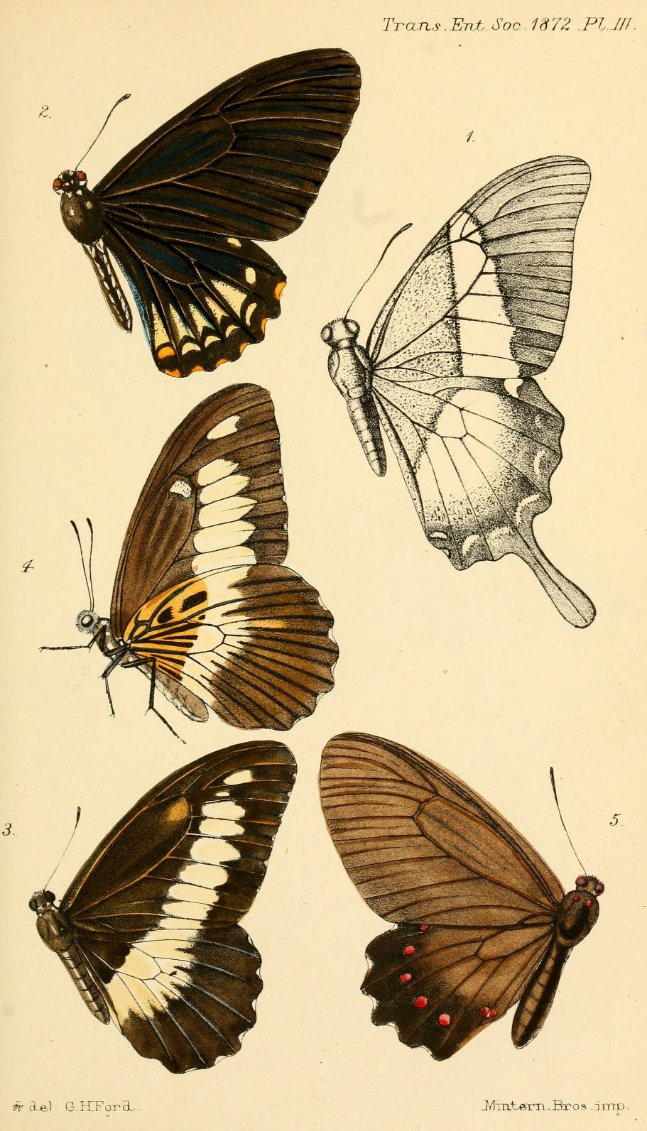 TransEntSocLond 1872Plate8 1 Papilio Buddha accepted name Papilio buddha Westwood, 1872 2 Papilio Papone accepted name Papilio clytia Linnaeus, 1758 variety papone Westwood 3 Papilio Odenatus accepted name Papilio zenobia Fabricius, 1775 4 Papilio Odenatus 5 Papilio Burchellanus accepted name Parides burchellanus (Westwood, 1872) text